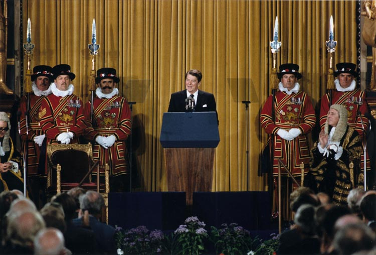 President Reagan addressing British Parliament, London, United Kingdom.